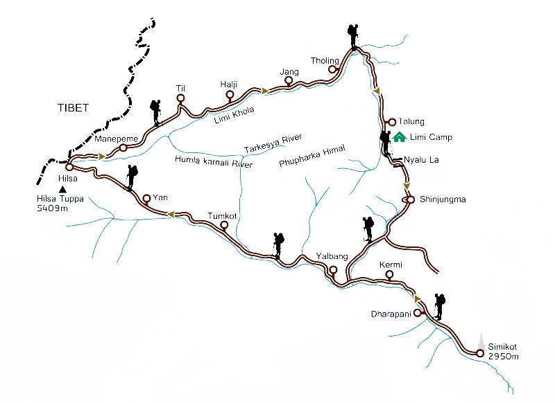 Limi trail from simikot